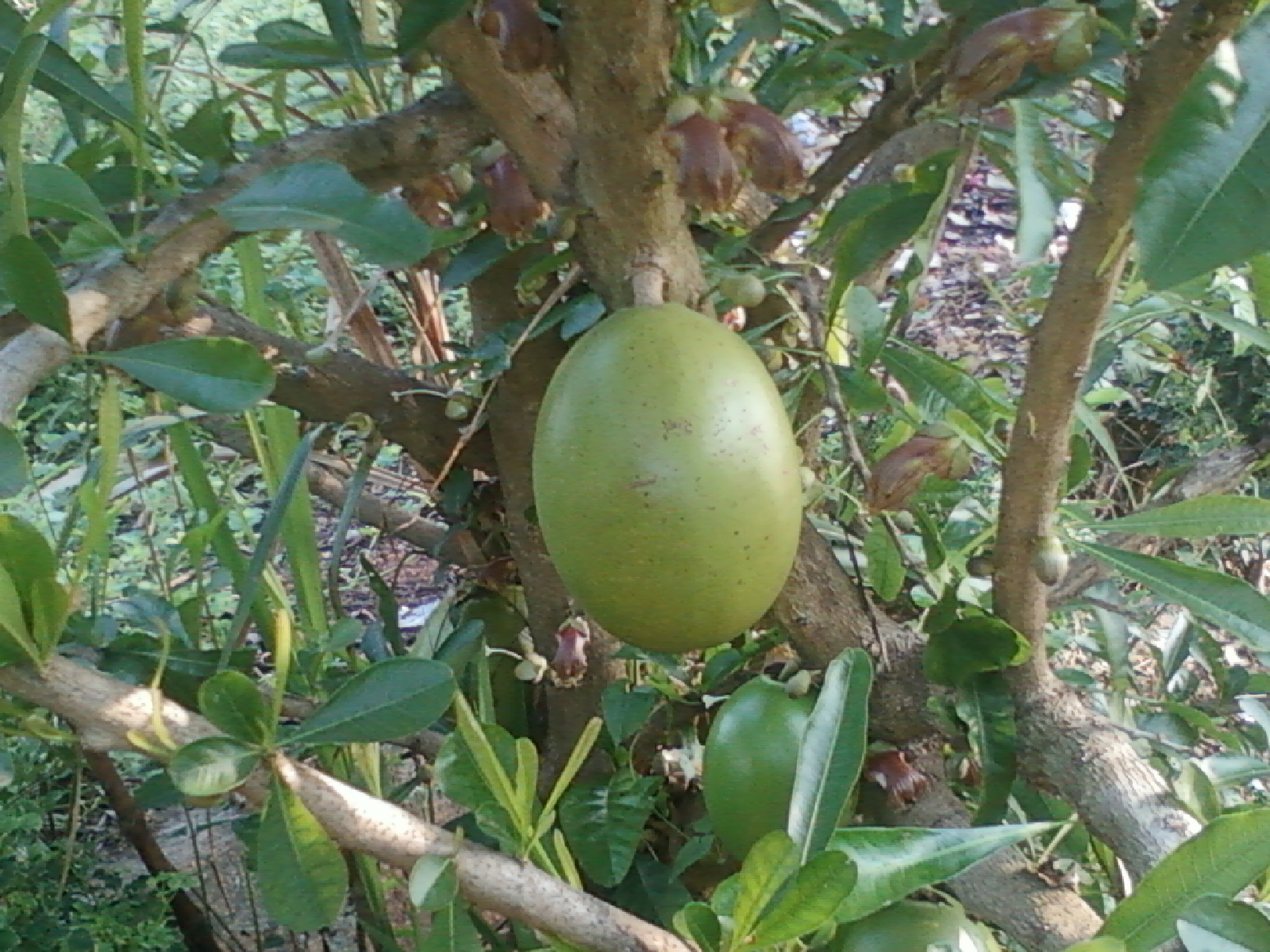 Kamandalu maram fruit from Chengannur Mhadeva Temple